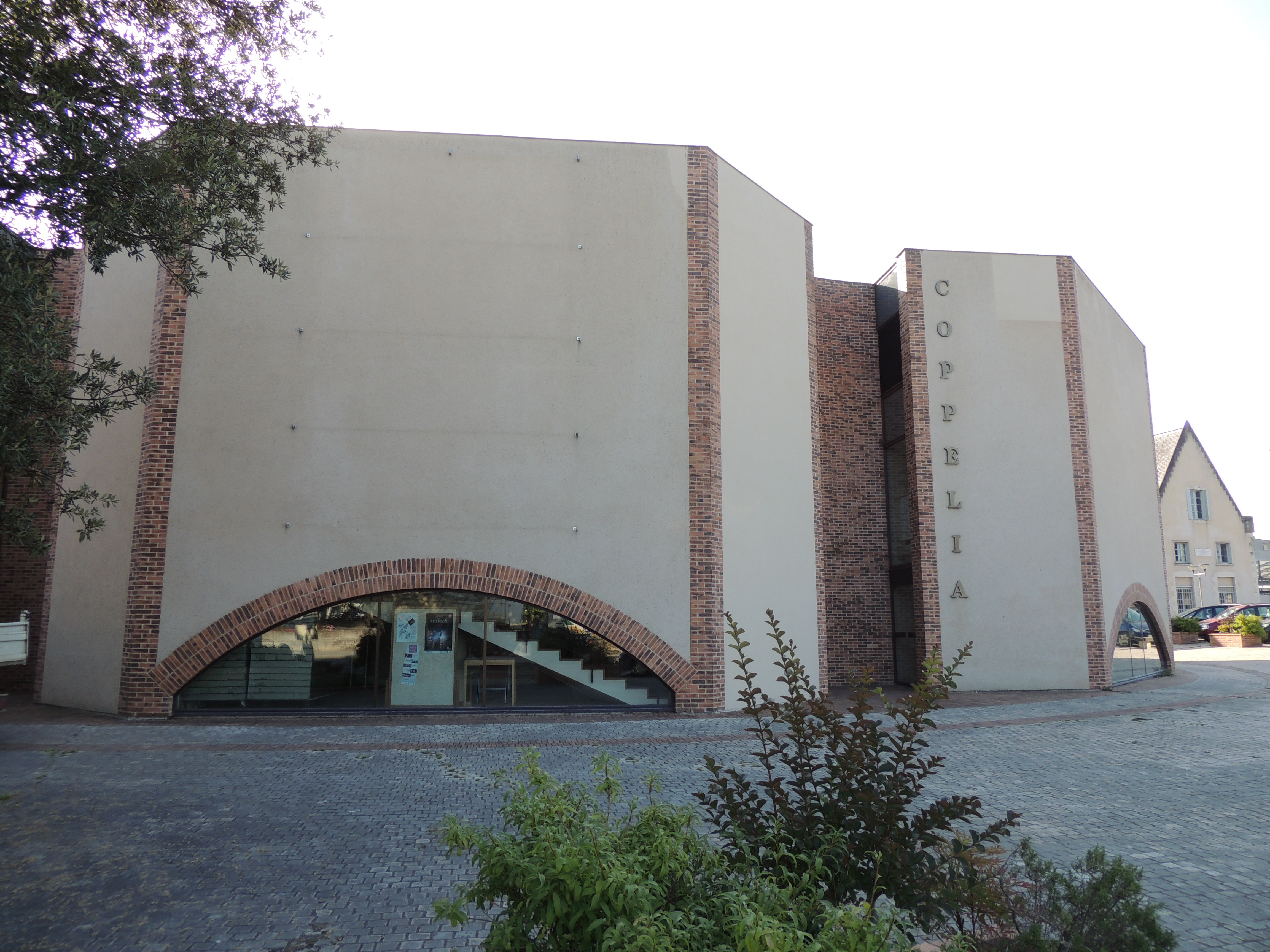 La Salle Coppélia de La Flèche